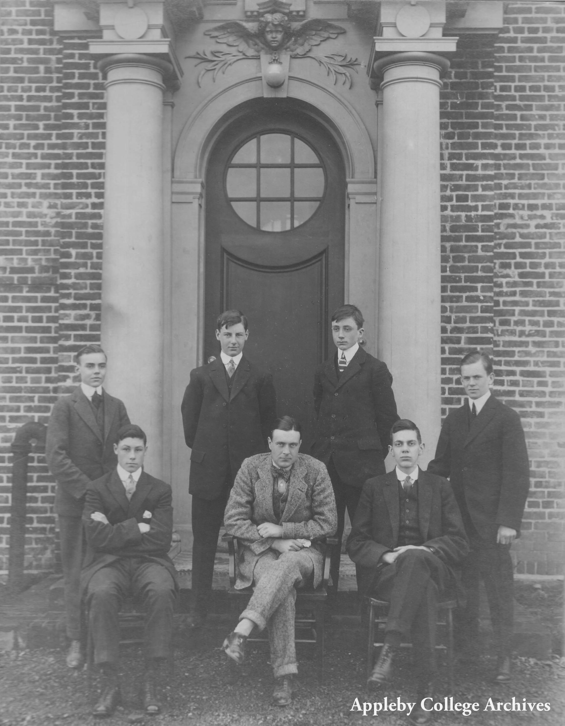 1912 Prefects; individuals pictured from left to right include: (standing) D.R. Macdonald, J.W. Gillespie, J.M. Harlan, A.D. MacLaren, (seated) A. de V.A. Turquand, V.H. de B. Powell, and R.H. Massey.